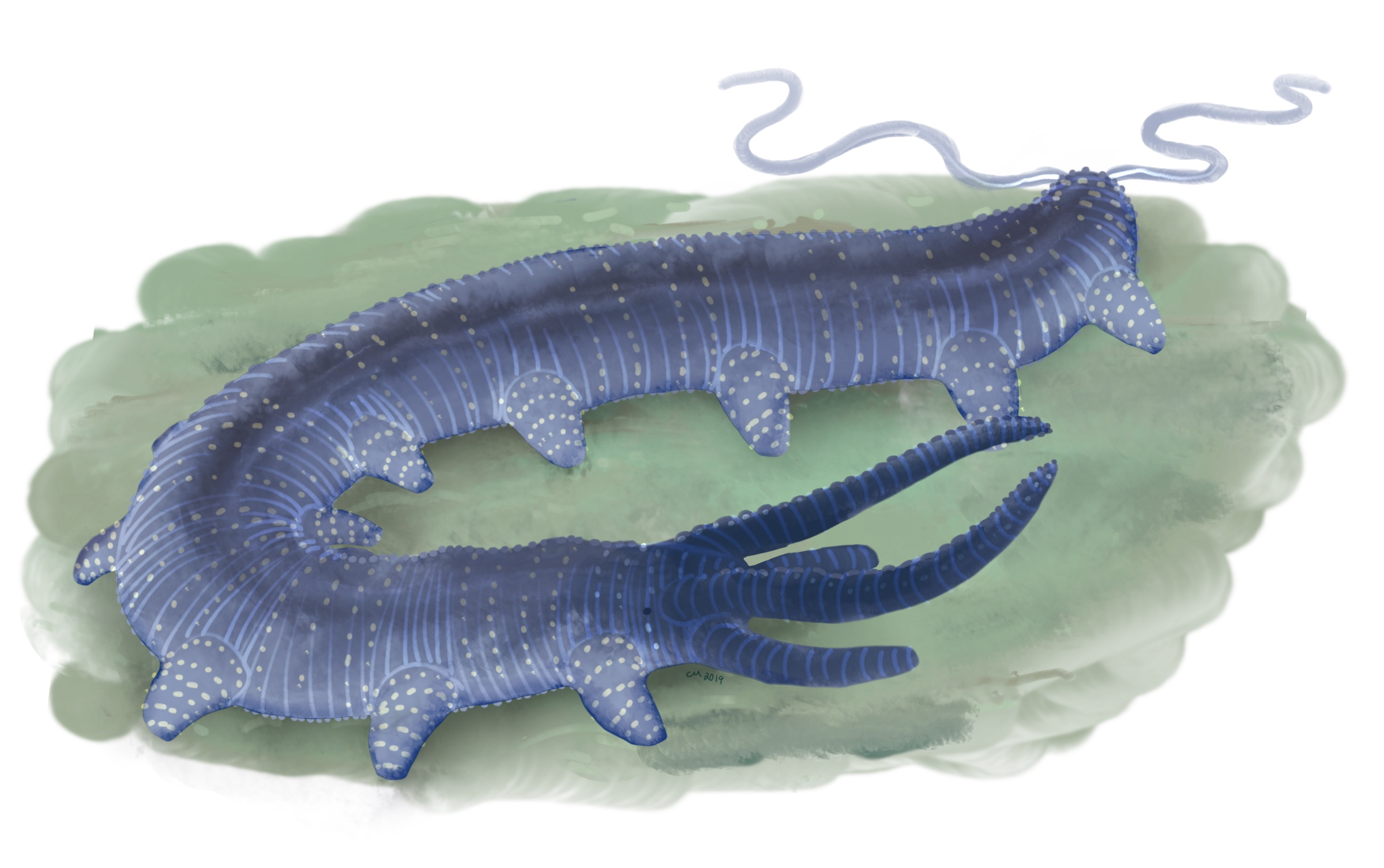 A reconstruction of Antennacanthopodia.